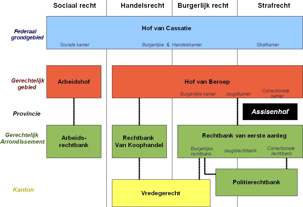 Judiciary system Belgium